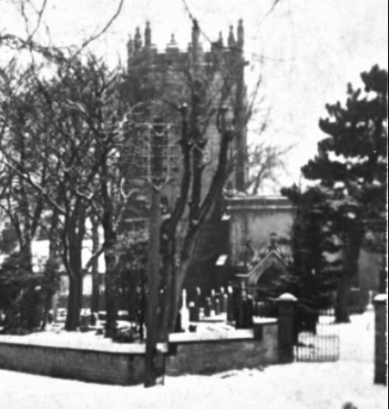 Perpendicular ashlar tower in snow